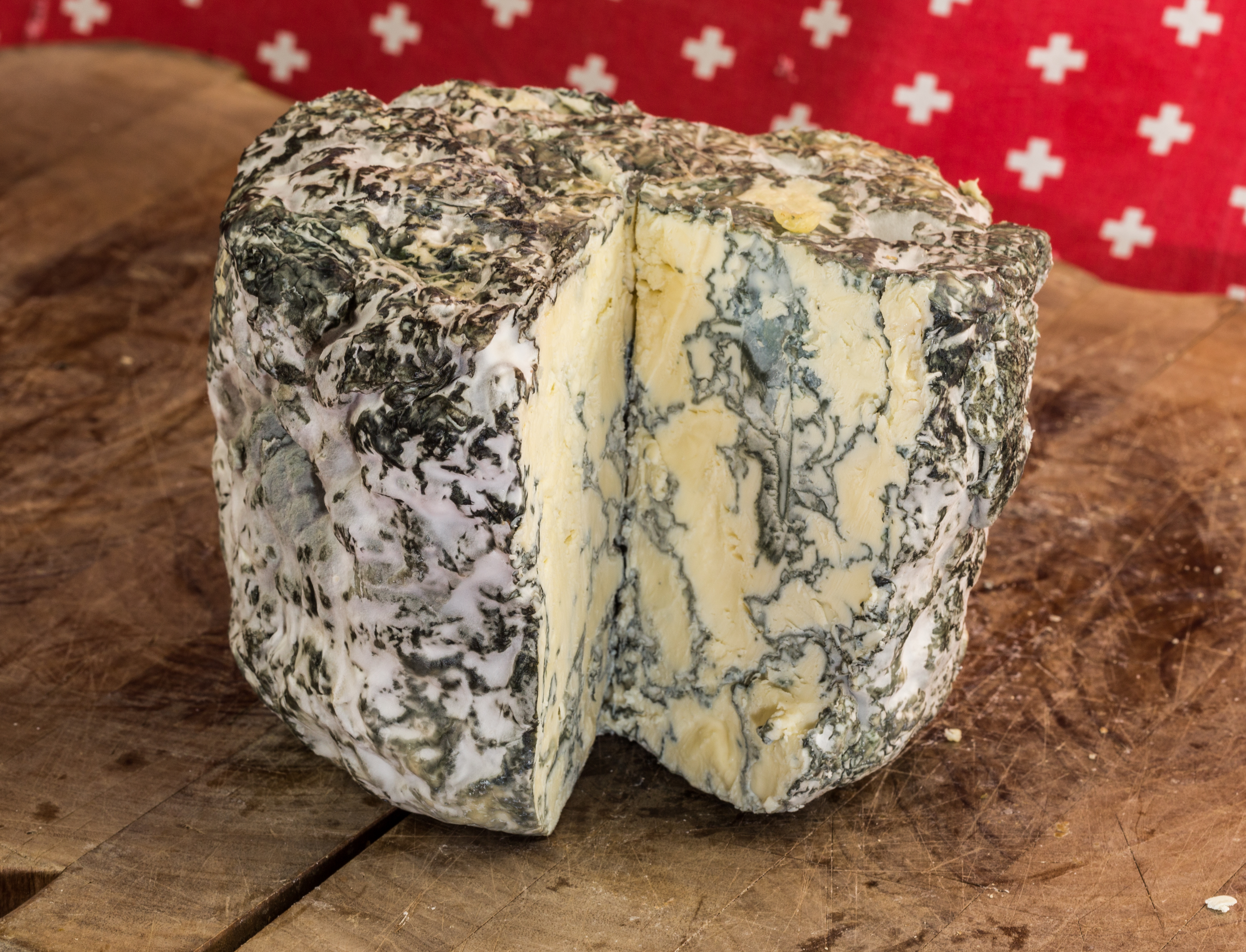 Blue cheese from raw milk of Jersey cattles, aged 5 to 8 weeks Origin Toggenburg, St. Gallen - Maître fromager affineur Willi Schmid, Städtlichäsi, Lichtensteig, Toggenburg, 2010 Awards; World's Best Jersey Cheese 2010